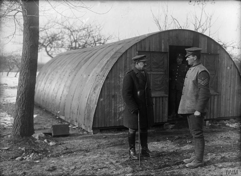 The British Army on the Western Front, 1914-1918 Lieutenant-Colonel Peter Nissen talking to Acting Coy. Sergt. Major Frederick TE Skinn, 29th (Advanced Park) Coy. Royal Engineers, at Blangy, 1917. They are infront of a Nissen Hut, invented in April 1916 by Nissen while he was a Captain with the 103rd Field Company of Royal Engineers. In the doorway of the hut stands a guardsman of the Welsh Guards.